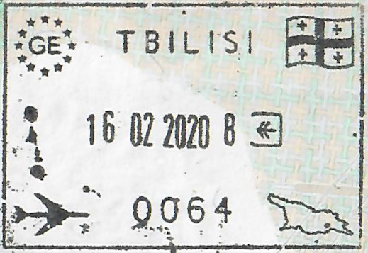 Georgian entry stamp in a Polish passport, issued at Tbilisi Airport.